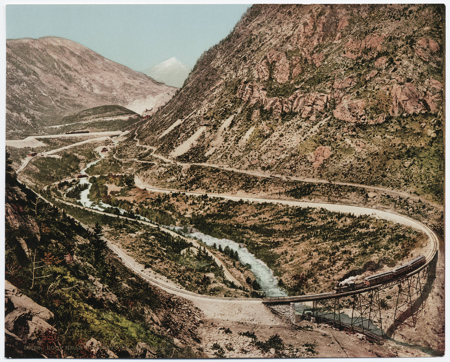 Loop near Georgetown, Colorado. (Georgetown Loop Railroad.) A photochrom postcard published by the Detroit Photographic Company.